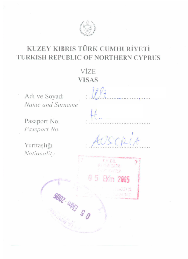 Visa Turkish Republic of Northern Cyprus, 2005